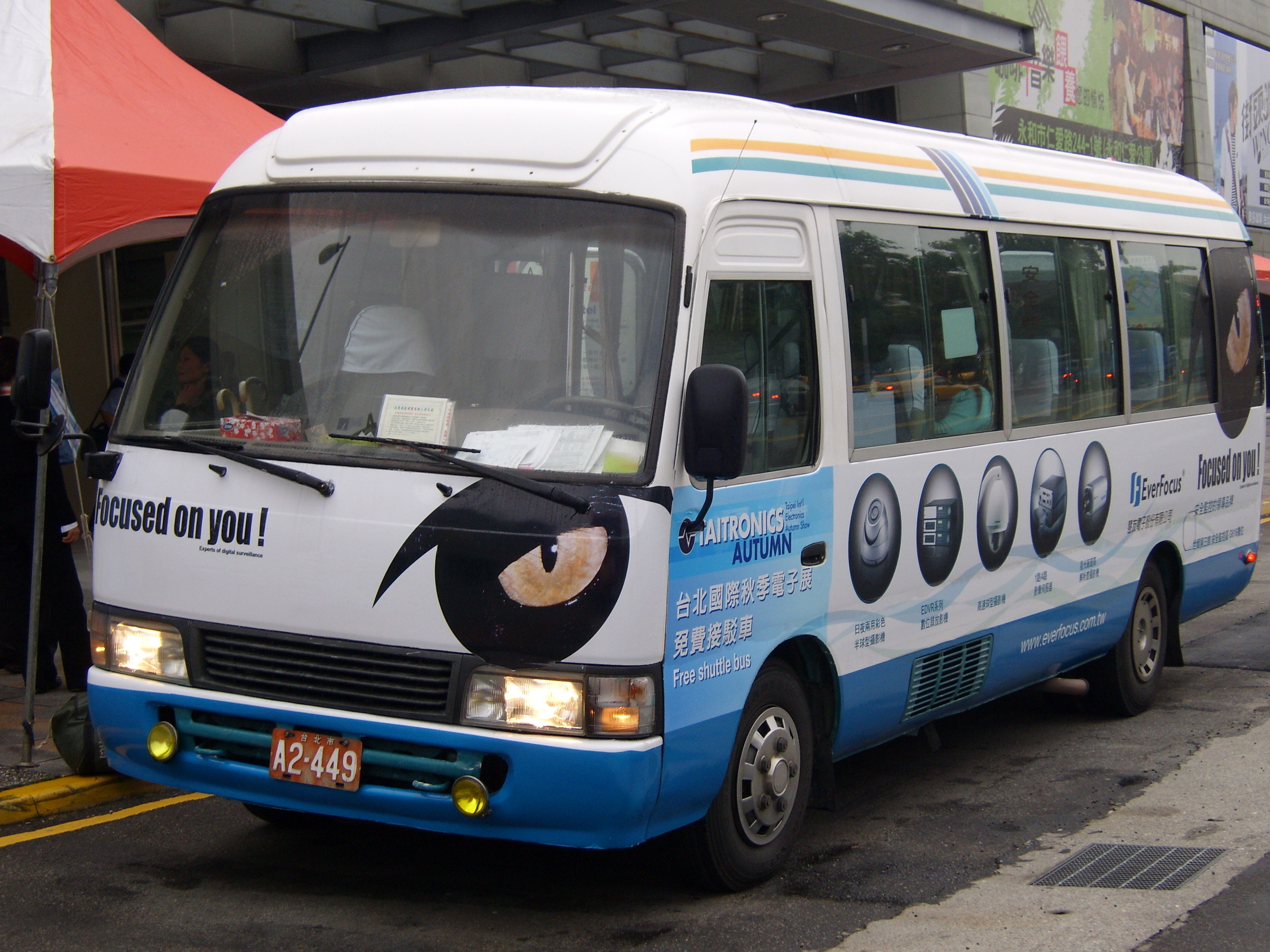 2007 TAITRONICS Autumn Inter-Hall Bus.